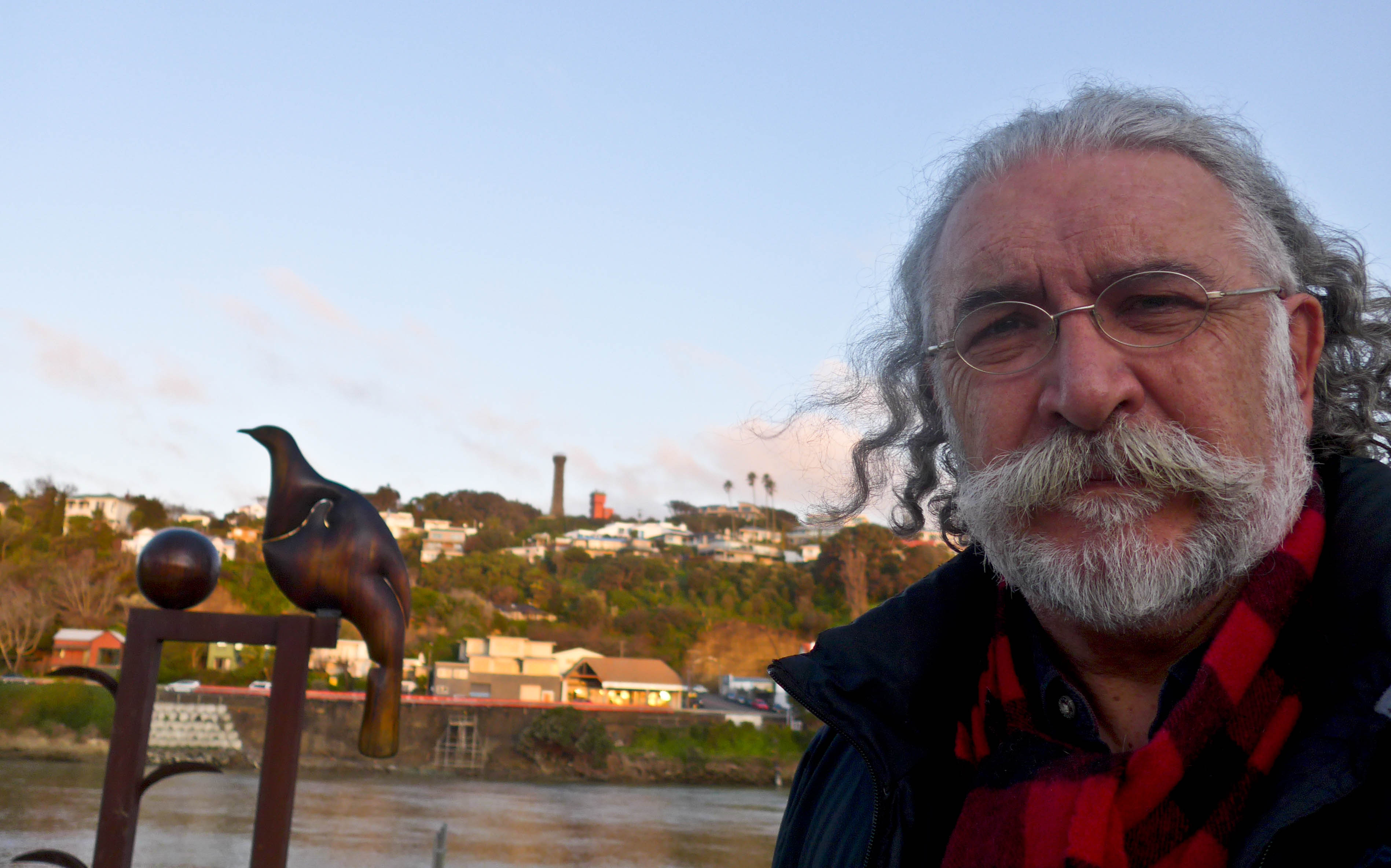 This is a portrait of poet, author and artist Christodoulos Moisa